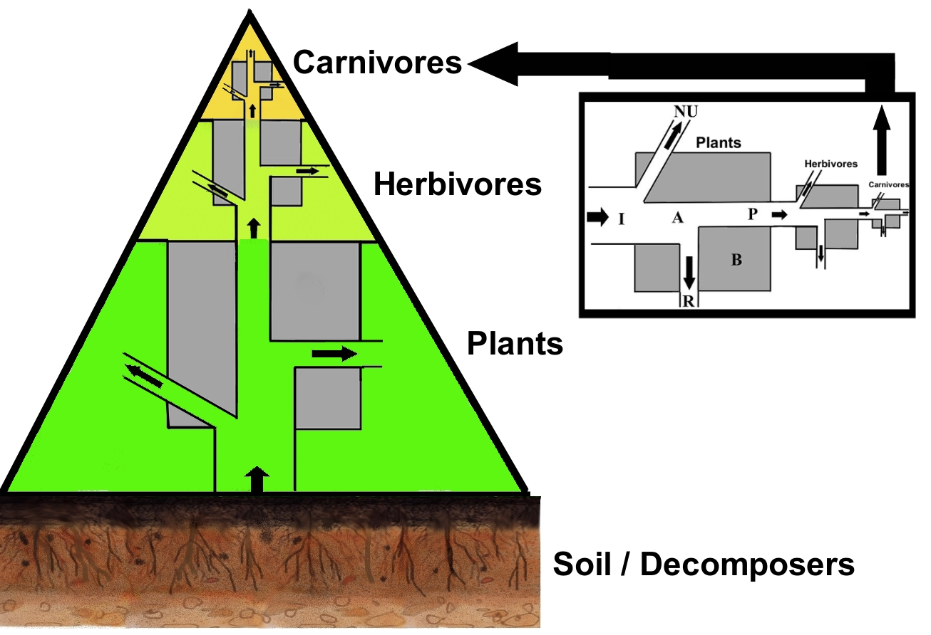 A trophic pyramid with an energy flow diagram passing through it.